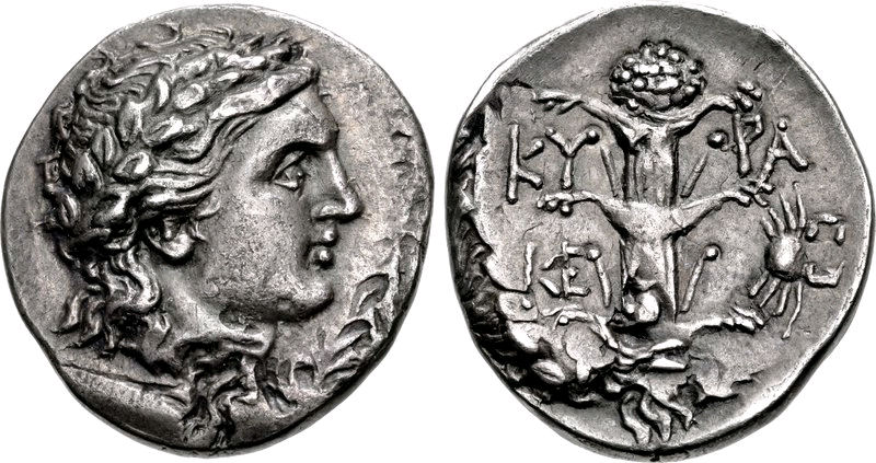 Magas as Ptolemaic governor, first reign, circa 300-282 or 275 BC Didrachm